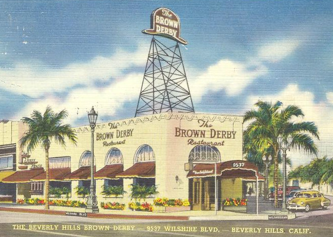 Linen postcard image of the Brown Derby restaurant (built in 1931 {1} and demolished in 1983 {1} ) at 9737 Wilshire, Beverly Hills, California. This postcard was produced prior to 1978 and has no copyright markings. The image has been cropped. This branch of the restaurant began in 1931; by 1980, it had been closed and the building demolished in 1983.